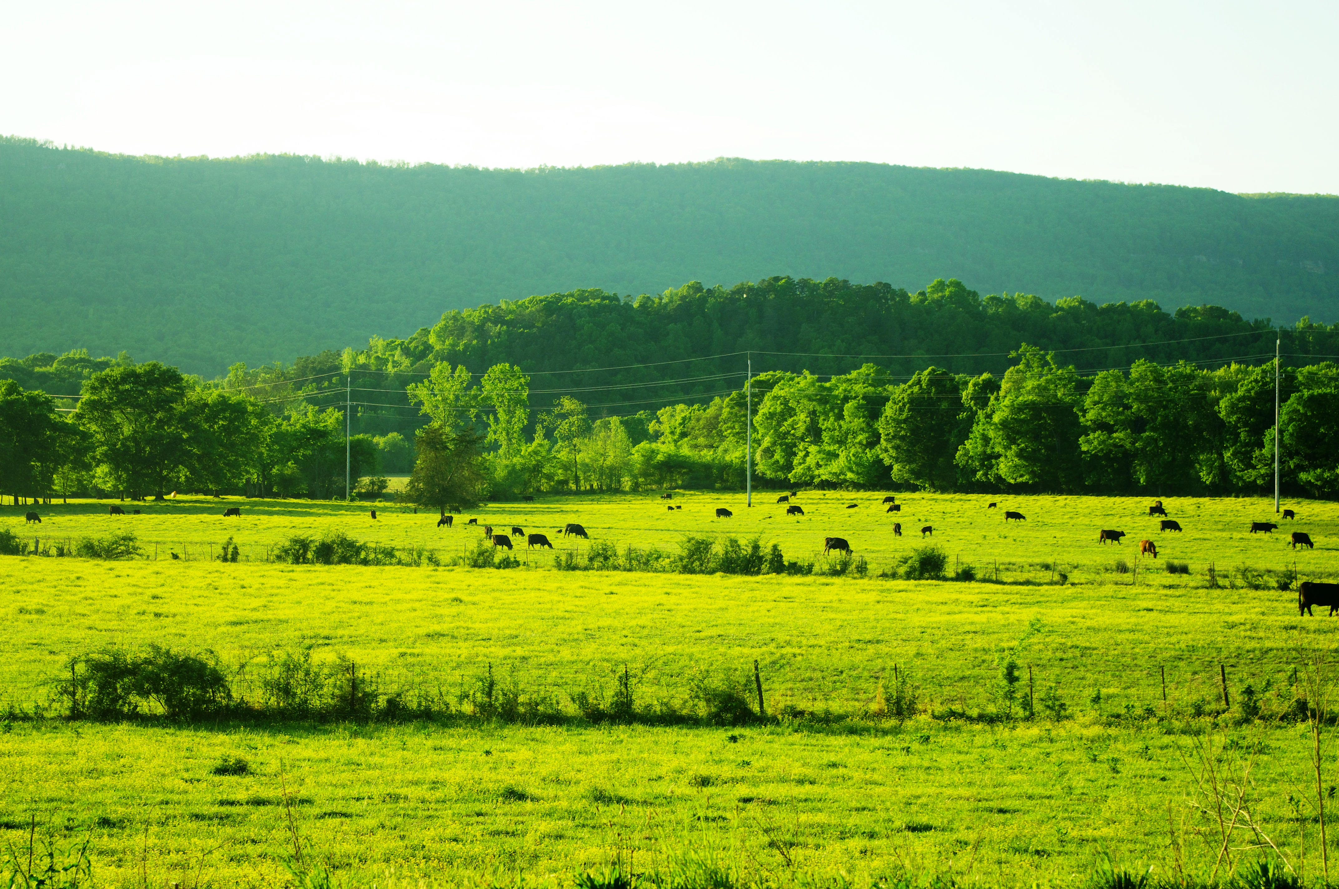 Farm and cattle pastures in the Sequatchie Valley, near Powells Crossroads, Tennessee, United States. The Cumberland Plateau rises in the background. View is from Highway 283, in front the Powells Crossroads Church of God.